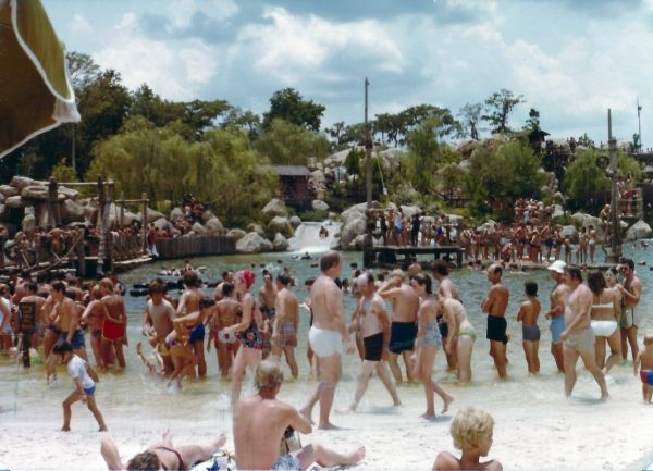 Disney's River Country at Walt Disney World Resort, in Orlando, Florida circa 1977.